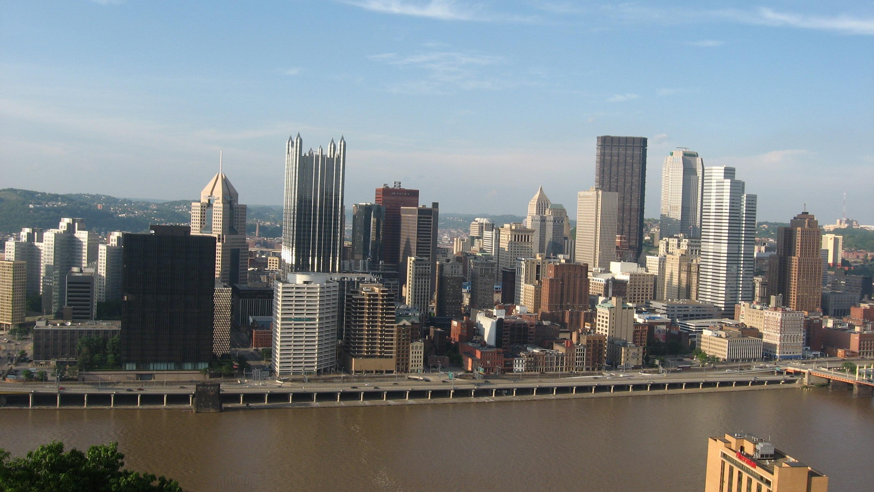 Pittsburgh Skyline from Mount Washington